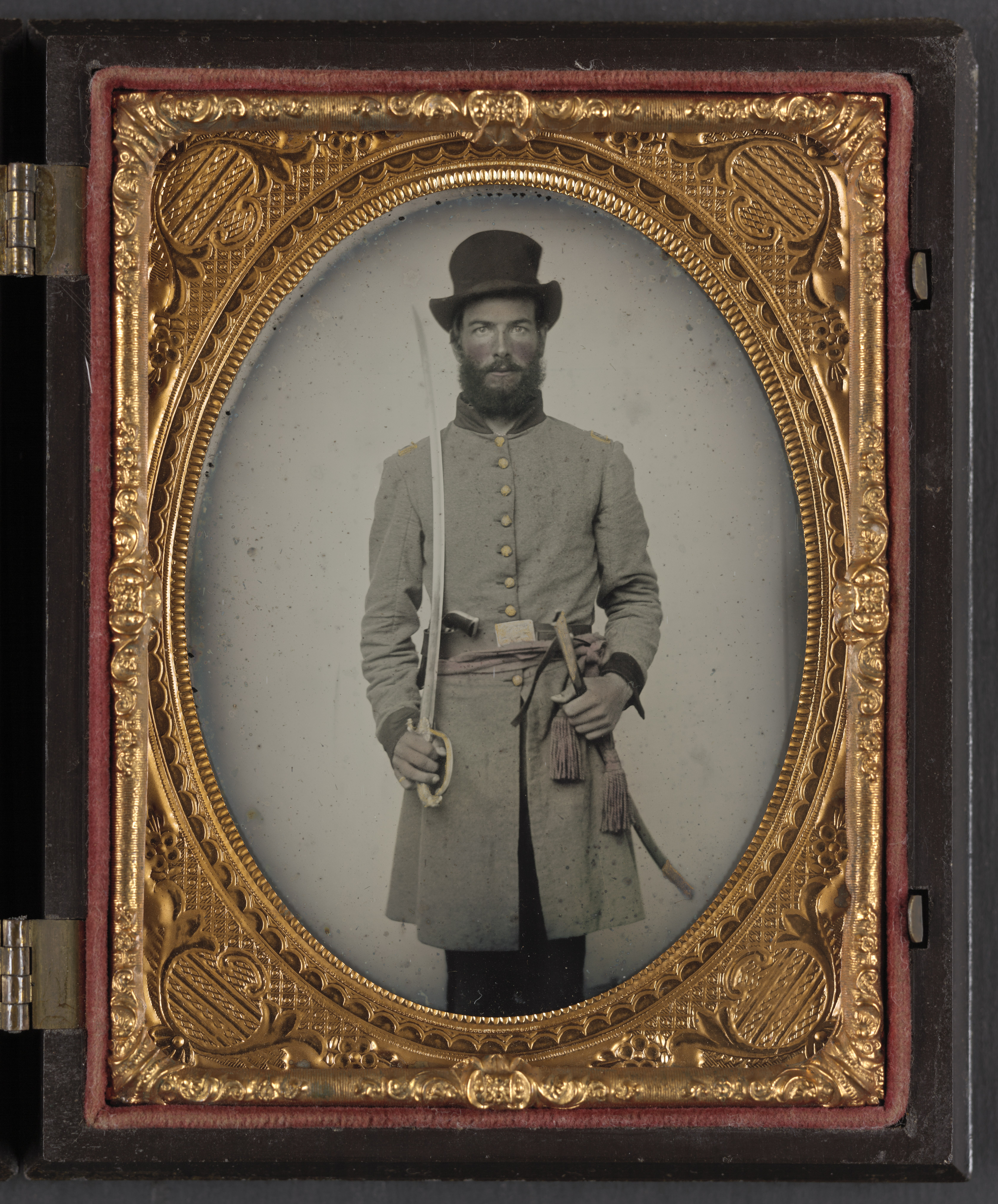 Title: Captain Augustus C. Thompson of Co. G, 16th Georgia Infantry Regiment with sword Abstract/medium: 1 photograph : quarter-plate ambrotype, hand-colored ; 12.6 x 10.2 cm (case)